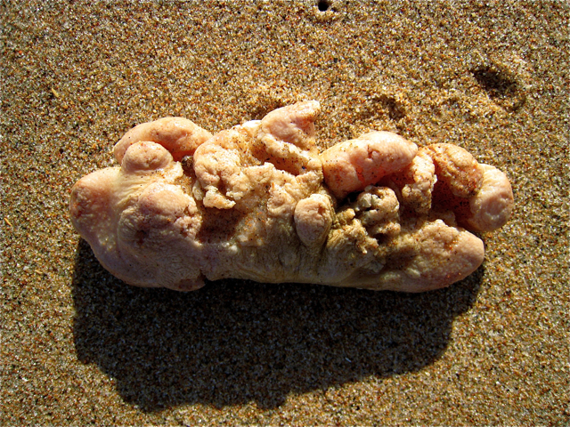 Menie Links: Flotsam This stranded creature is Alcyonium digitatum, a colonial relative of the sea anemones. Its common name is dead man's fingers but this particular 6 inch long example has more the look of a dead man's foot!